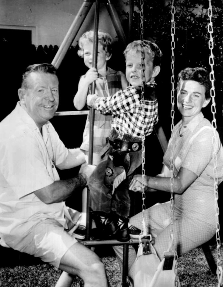 Photo of actor Ben Alexander and his family. Pictured-daughter Lesley, son Bradford and wife Lesley.